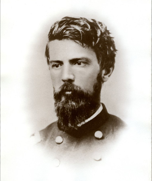 Ohio soldier and politician Milton Barnes (politician).